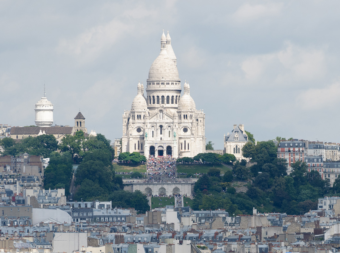 Montmartre, dominated by the Sacré Cœur